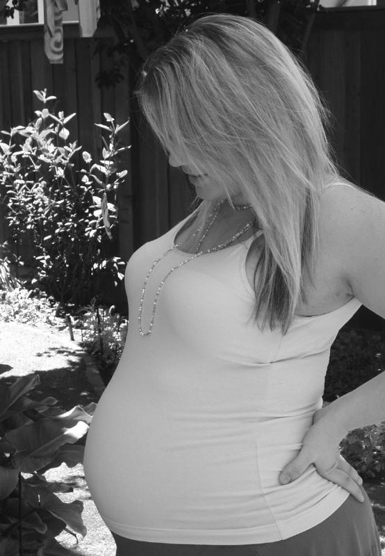 A picture of my wife